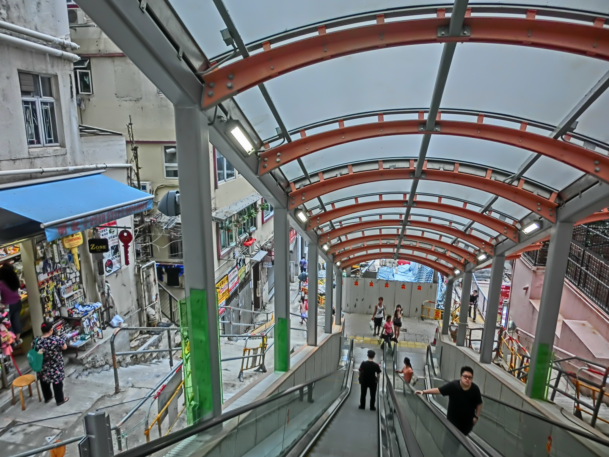 西環 正街自動扶梯連接系統, Covered Escalators in Centre Street, Sai Ying Pun, Hong Kong